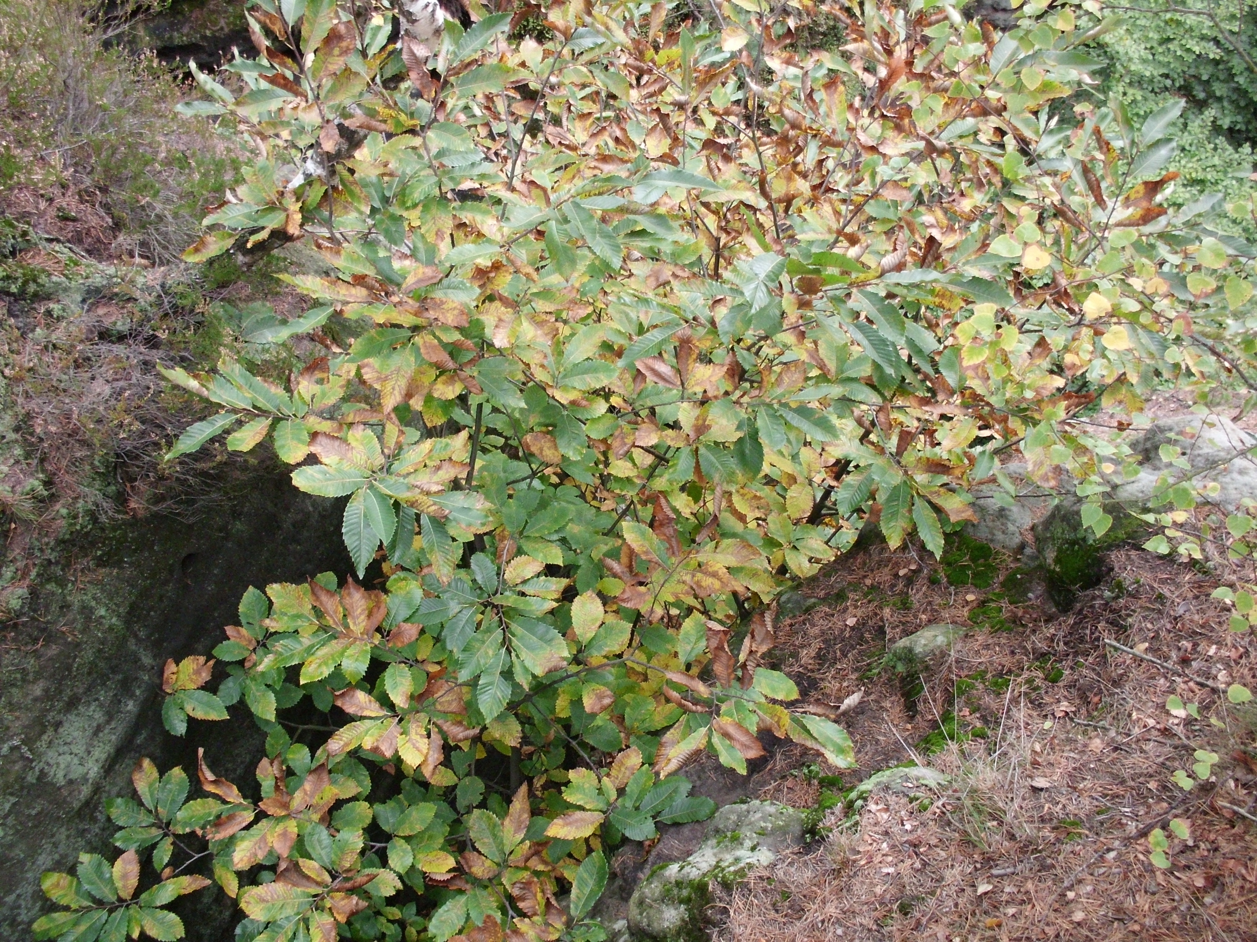 National natural monument Pravčická brána in Děčín District, Czech Republic. Castanea sativa